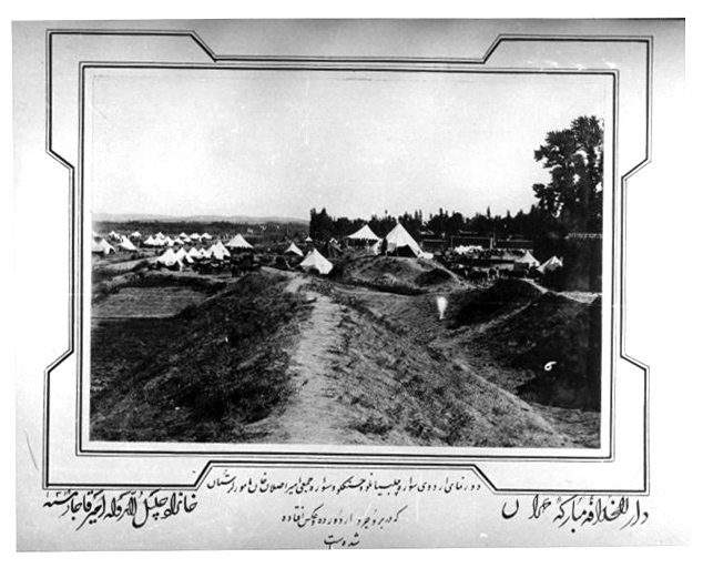 Troops of Hasanakloo in Borujerd Qajar era